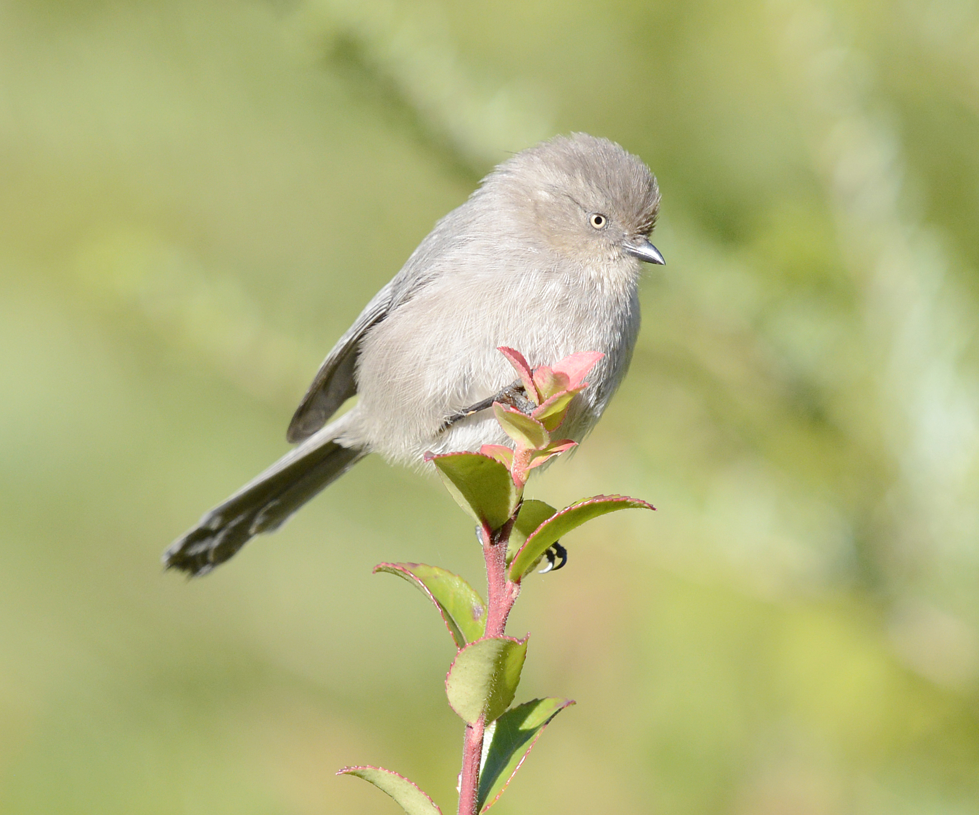 American Bushtit (Psaltriparus minimus), female, western Washington State